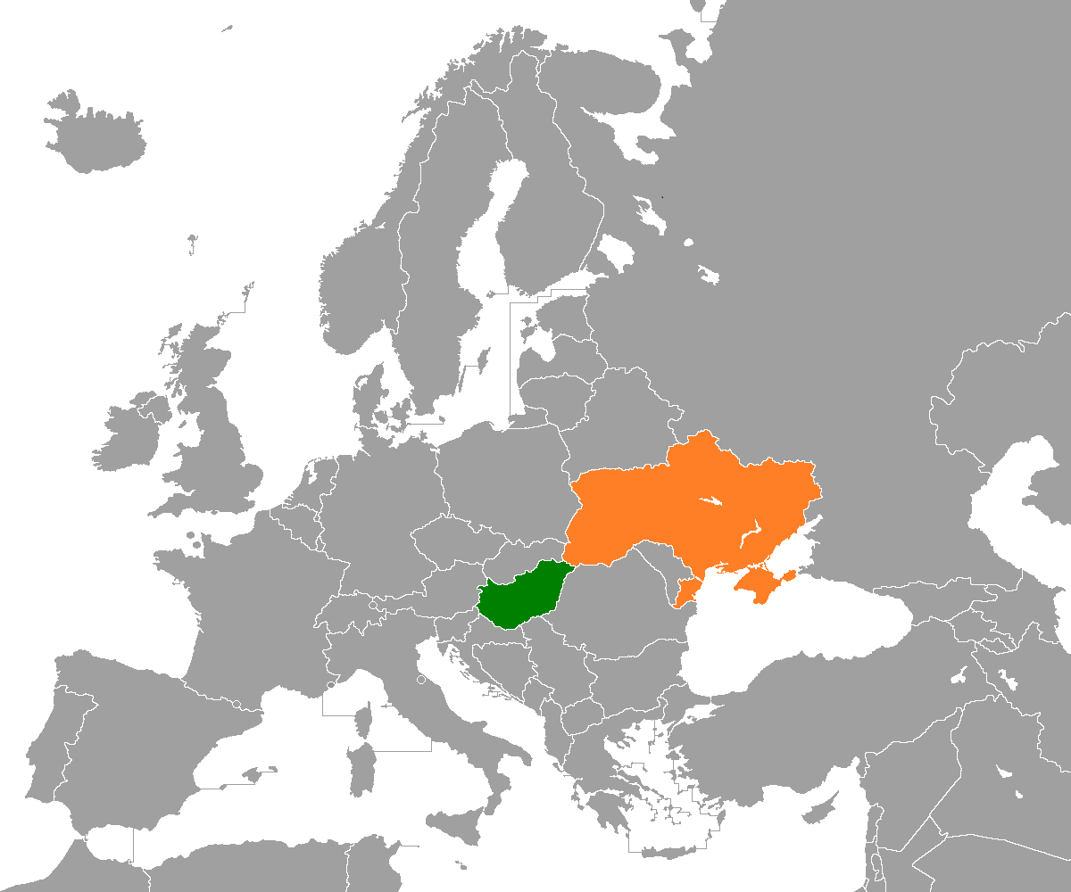 Hungary-Ukraine locator map.